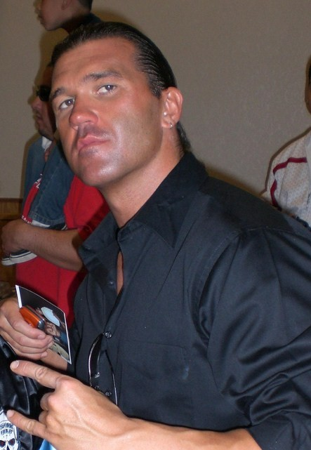 Professional wrestler Kaz/Frankie Kazarian in Newark, California